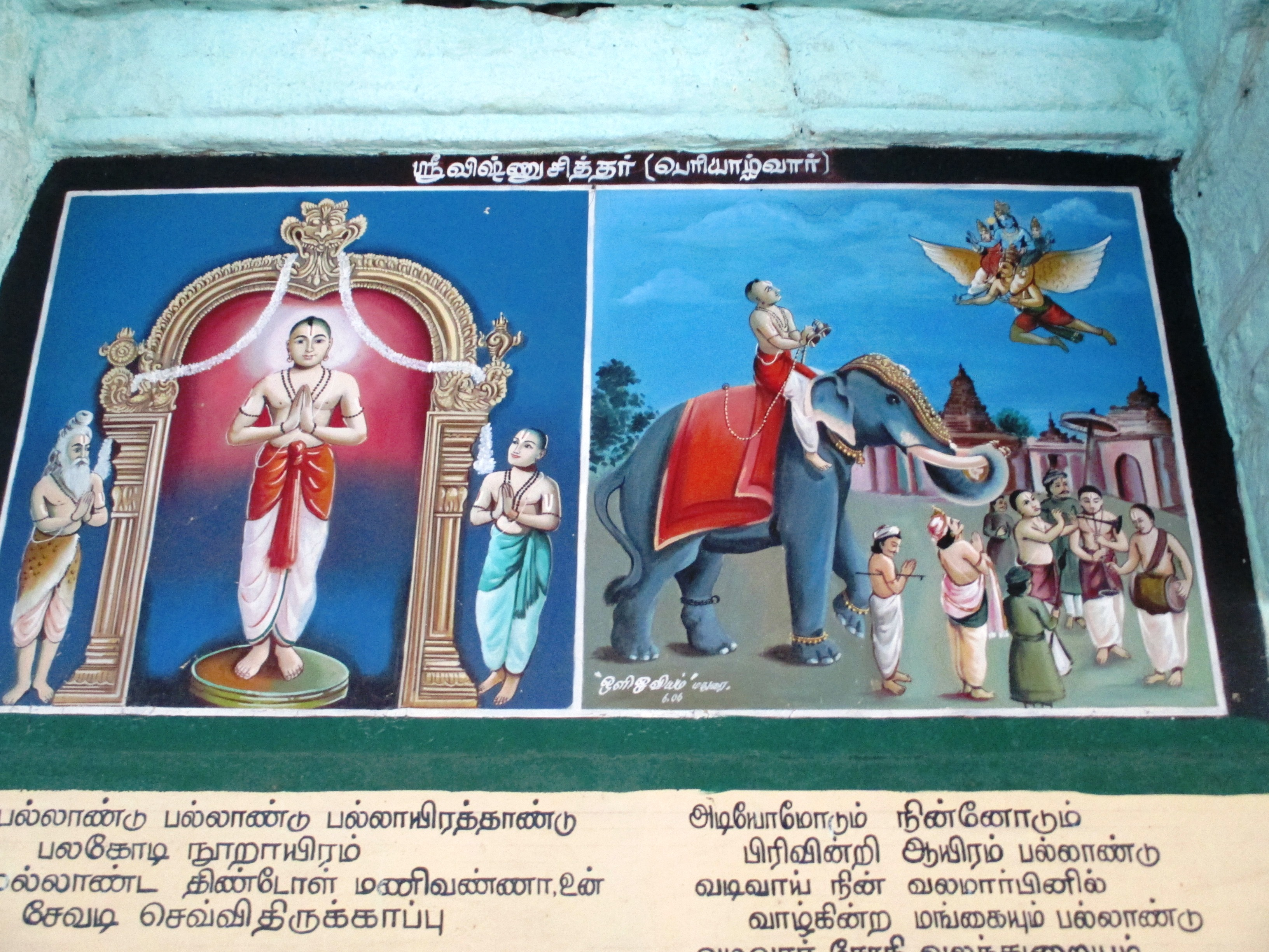 Koodazhagar